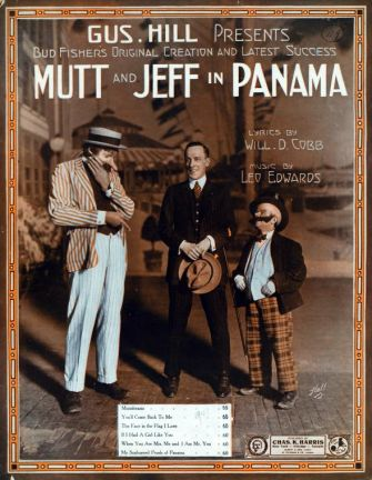 Sheet music cover for Mutt and Jeff in Panama (1913) staged by Gus Hill